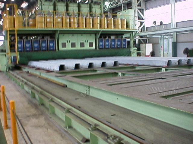 Orthotropic deck fabrication.